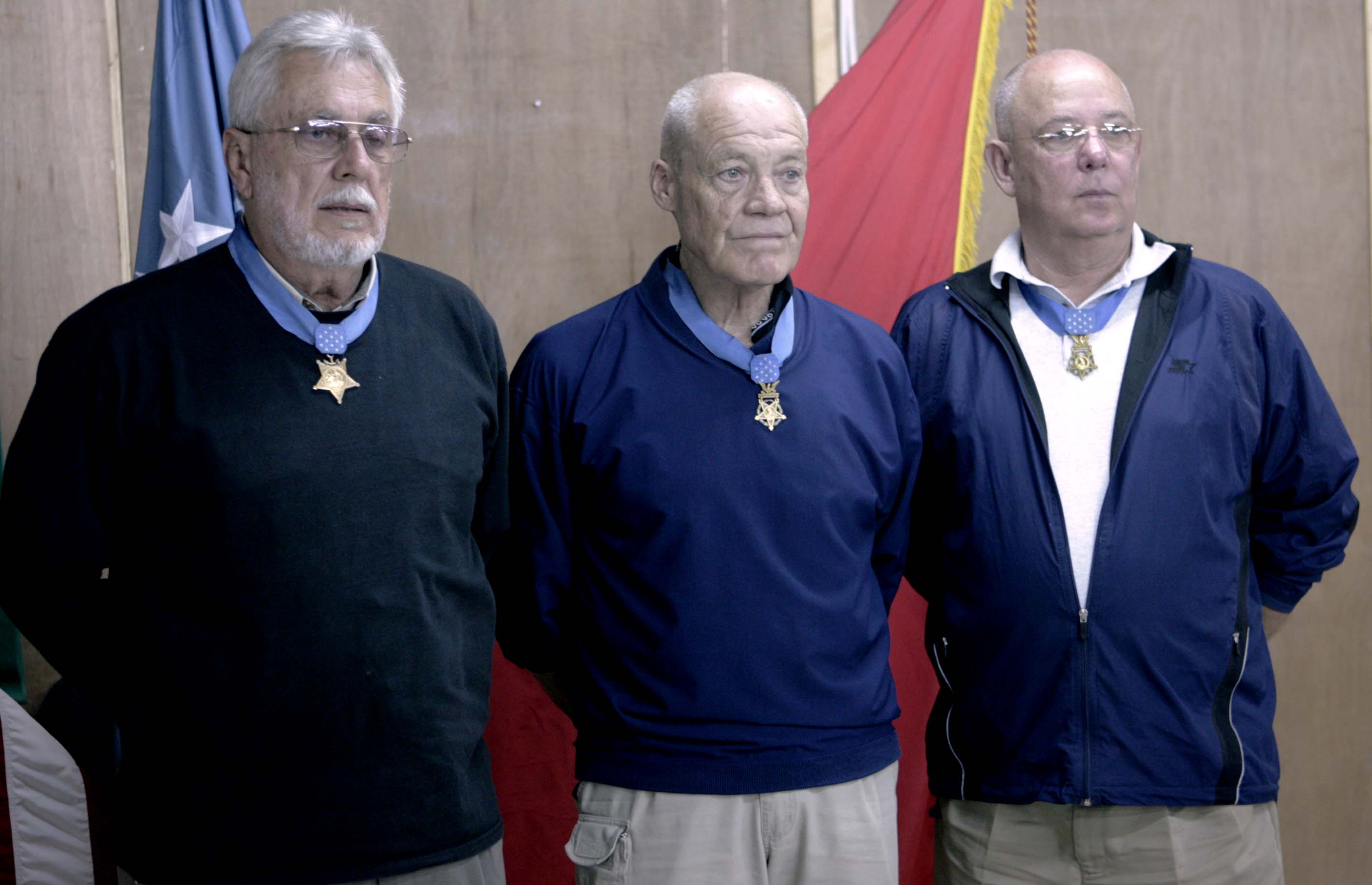 United States Medal of Honor recipients Captain John J. McGinty, III, USMC (left), Colonel Robert L. Howard, USA (center), and Command Sergeant Major Gary L. Littrell, USA (right), at Camp Taqaddum, Iraq on November 11, 2006. The image is from the Official Webite of the United States Marine Corps and was originally attached to the story "Medal of Honor recipients make special visit" located here. It is a work of the federal government of the United States and is in the public domain, see tags below.